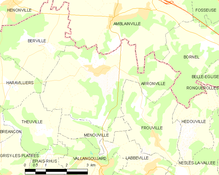 Map of French municipality Arronville